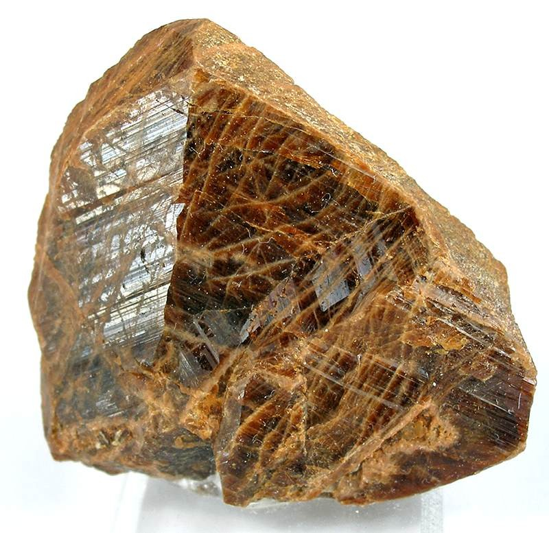 Monazite Locality: João Torres Mine, Muqui, Espírito Santo, Southeast Region, Brazil (Locality at ) Size: 4.7 x 4.4 x 1.4 cm. A shockingly large 2-inch monazite crystal, complete all around front and back except for a slight contact on the right side edge. This is a shocking size for such a sharp example of this REE species! Ex. Hawthorneden and Alfredo Petrov collections.